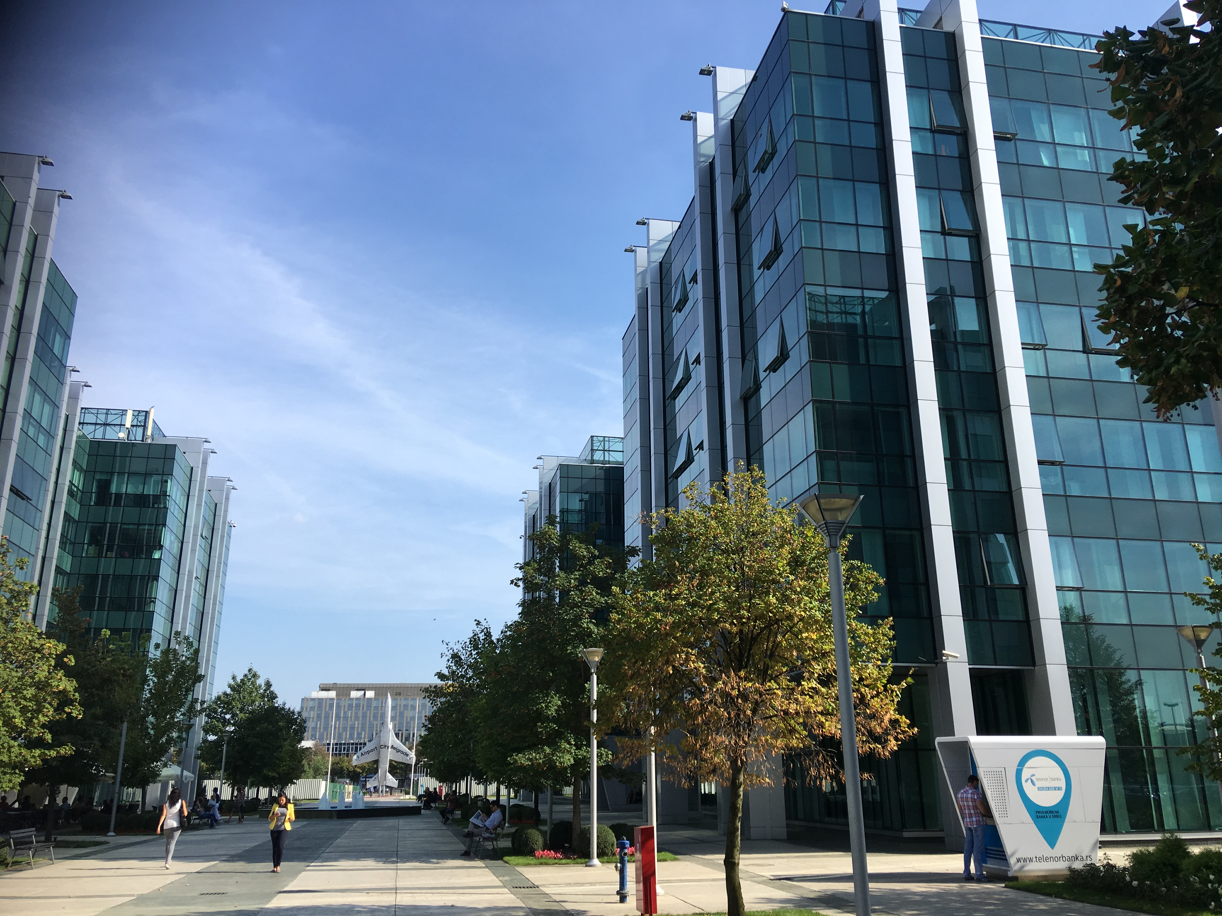 Airport City Office complex in Novi Beograd, Serbia